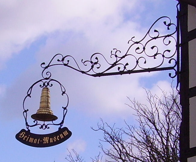 view of Schifferstadt, Germany